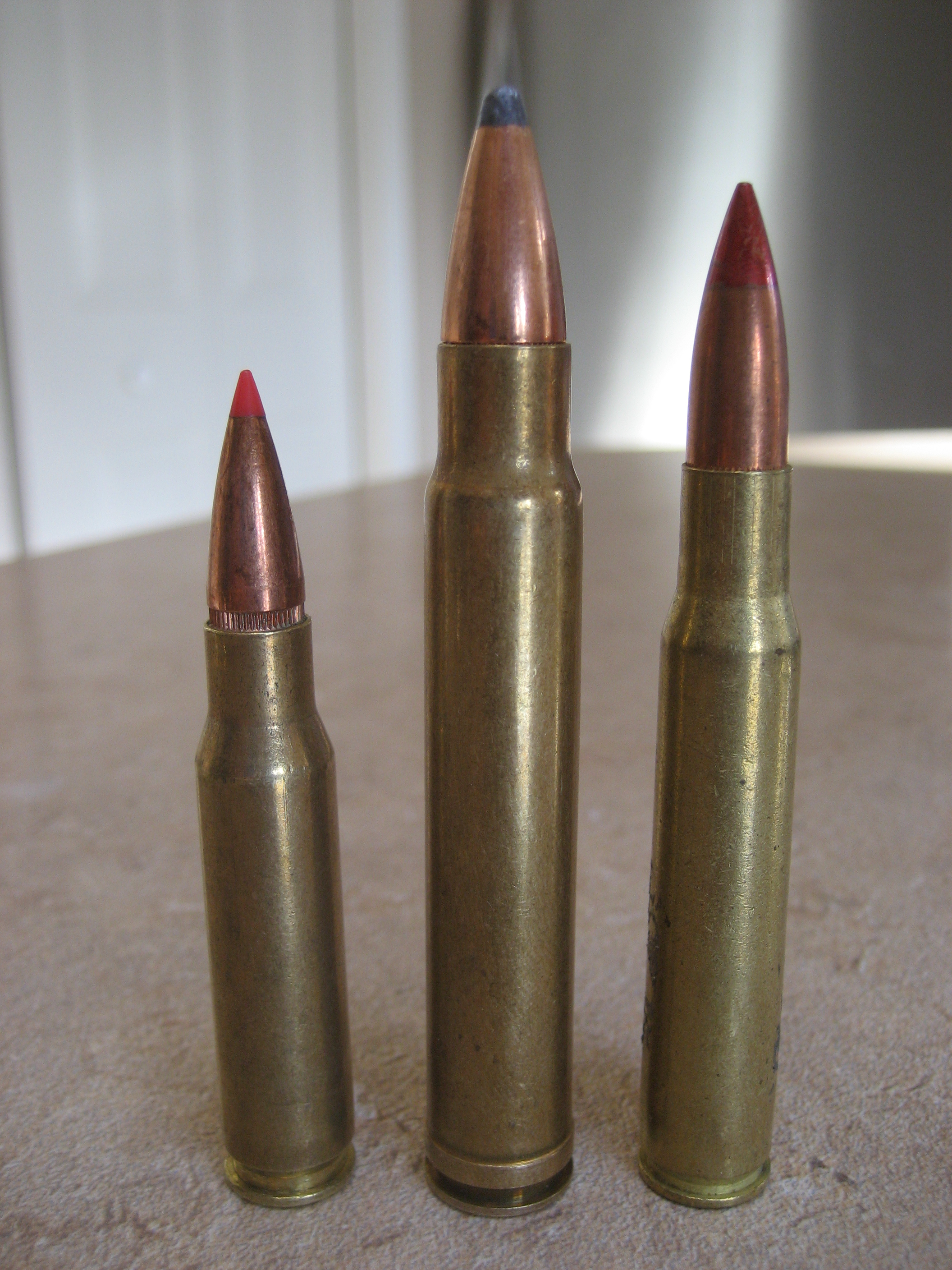 .375 Weatherby Magnum compared to .308 Winchester and 30-06.